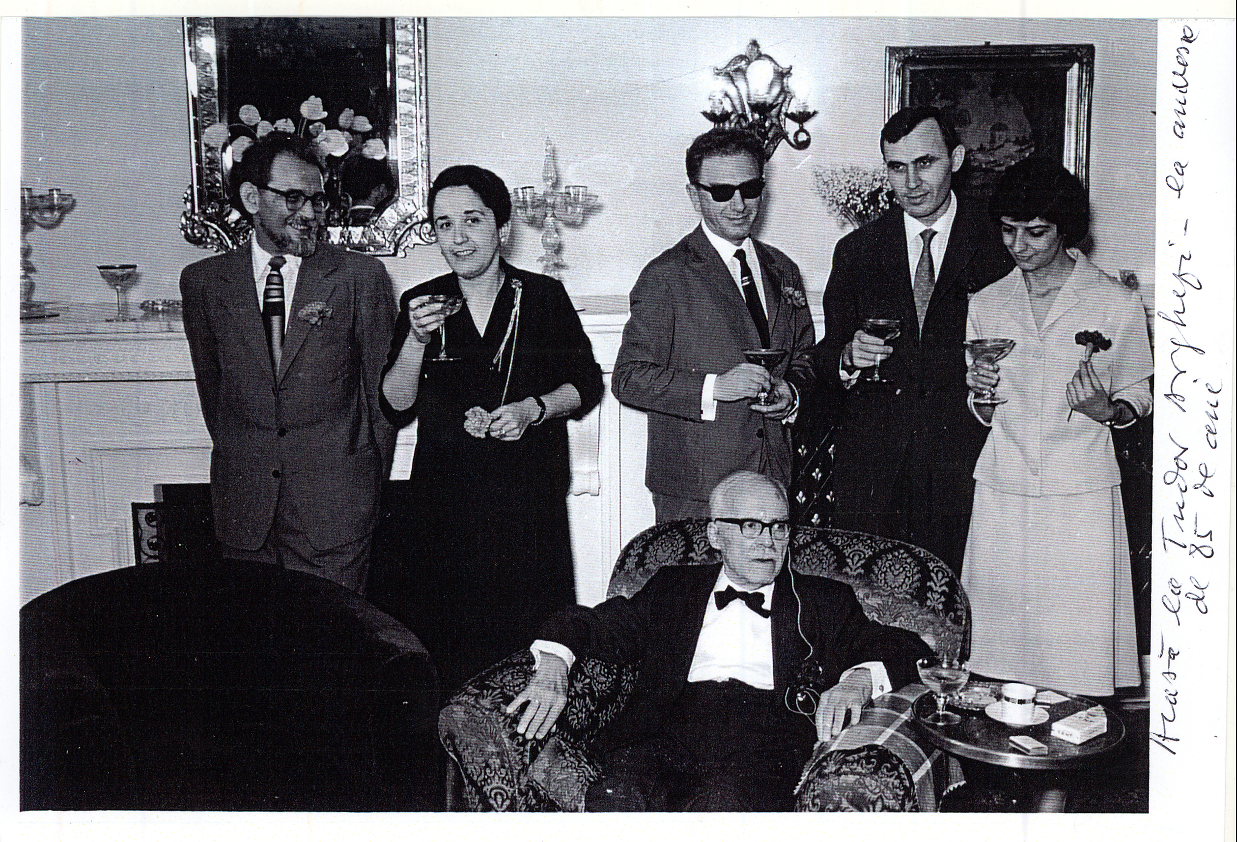 Romanian writer Tudor Arghezi - 85 years